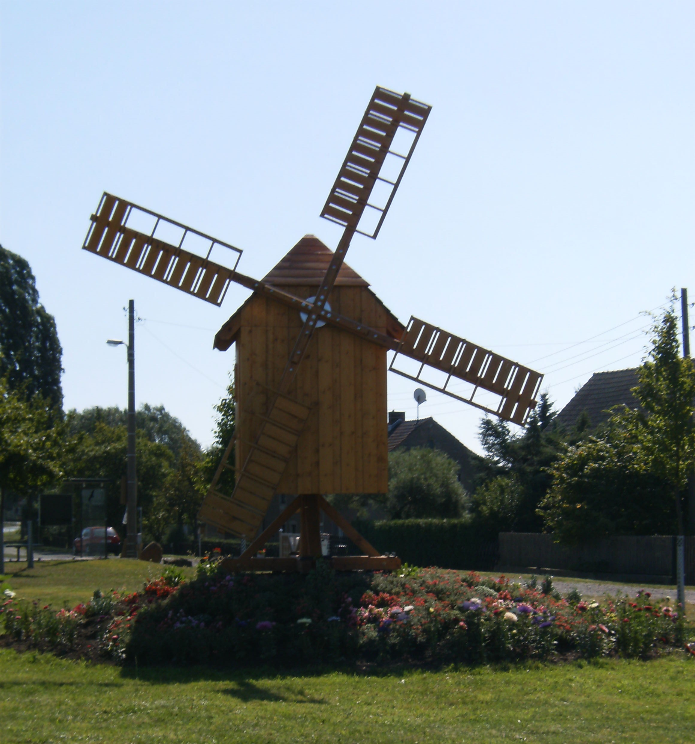 Wuestfalke, ancient windmill rebuiling.